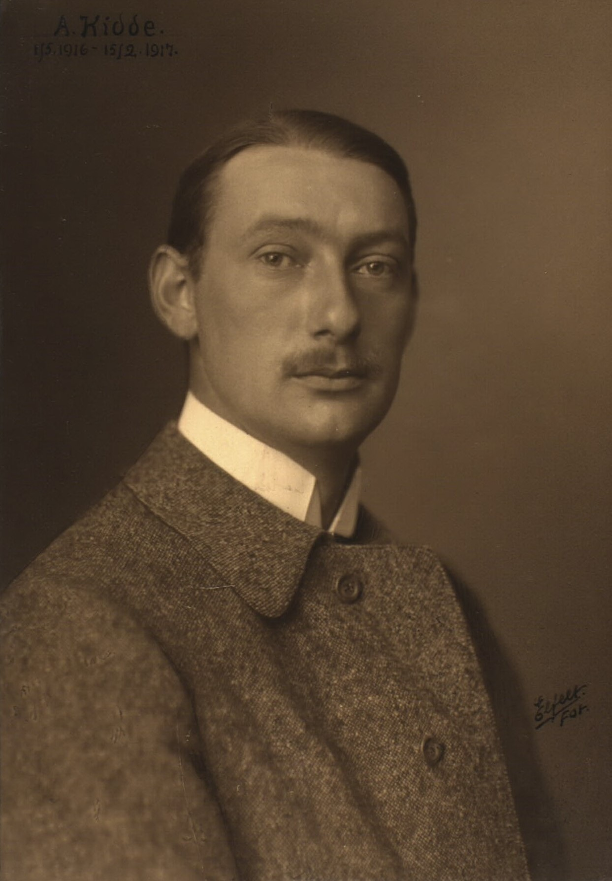 Aage Ingebjørn Sager Kaas Kidde (1888-1918), Danish politician, MP